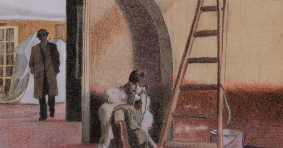 The sketch makes clear the image composition, position of the characters within the frame, the usage of colour and the kind of lightening of a take in the film "Ultimo tango a Parigi" (1972).